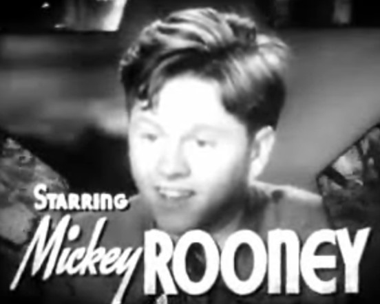 Cropped screenshot of Mickey Rooney from the trailer for the film Babes in Arms